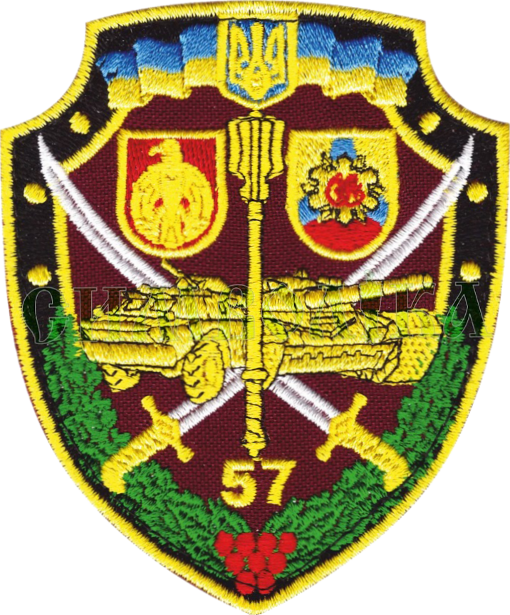 Shoulder sleeve insignia of the Ukrainian Army 57th Motorized Infantry Brigade